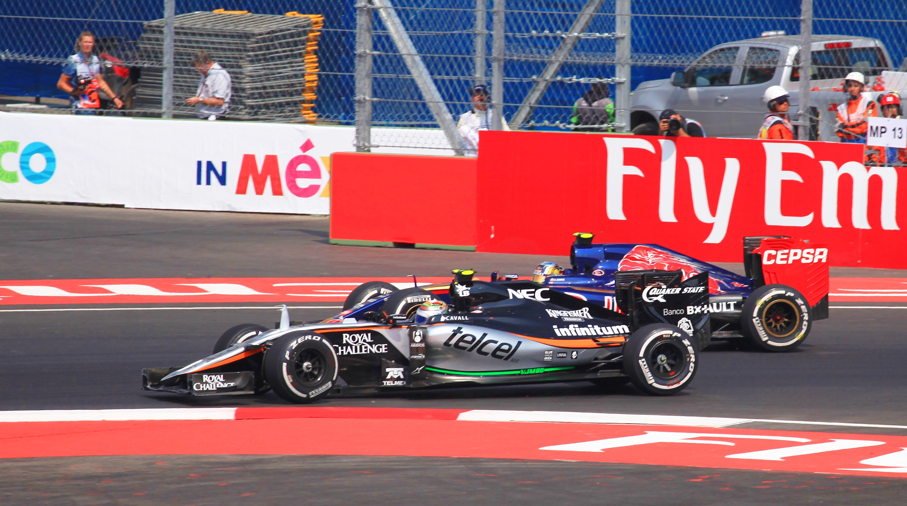 Sergio Pérez and Carlos Sainz at the 2015 Mexican Grand Prix